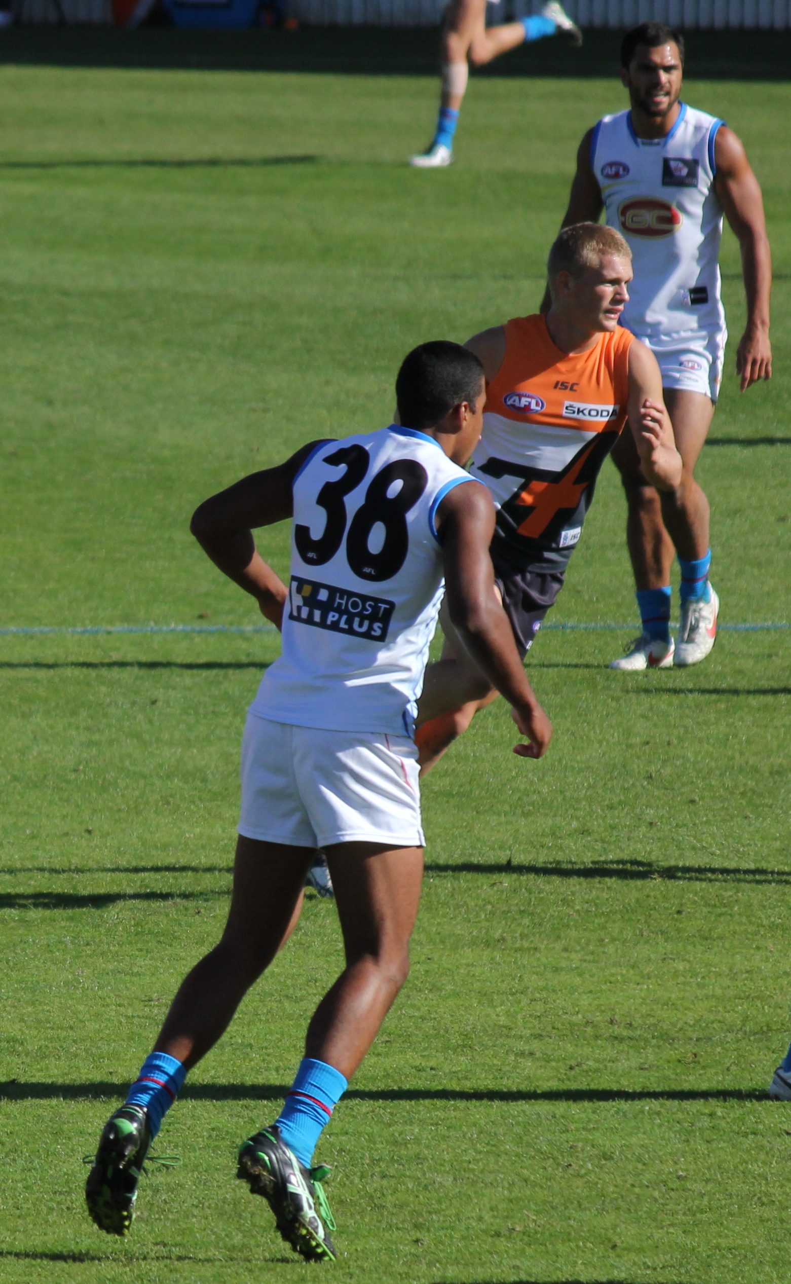 2012 Round 7. GWS Giants vs Gold Coast Suns. Manuka Oval.